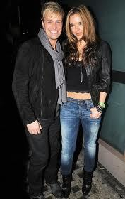 Kian Egan and Jodi Albert